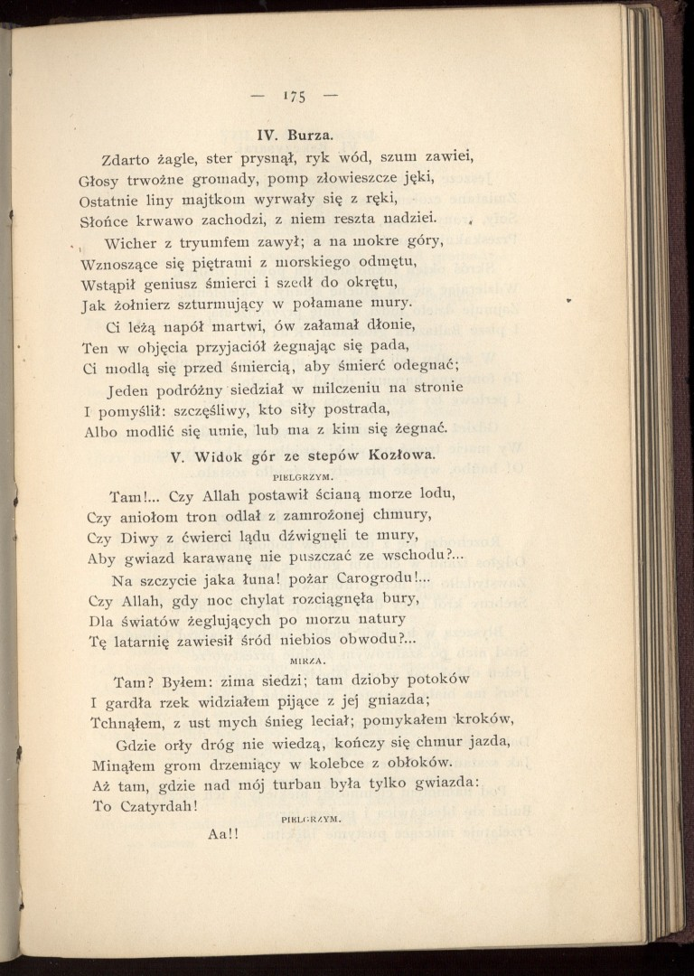 Poems by Adam Mickiewicz. V. 1. - Kraków; 1899; Adam Mickiewicz (1798-1855)